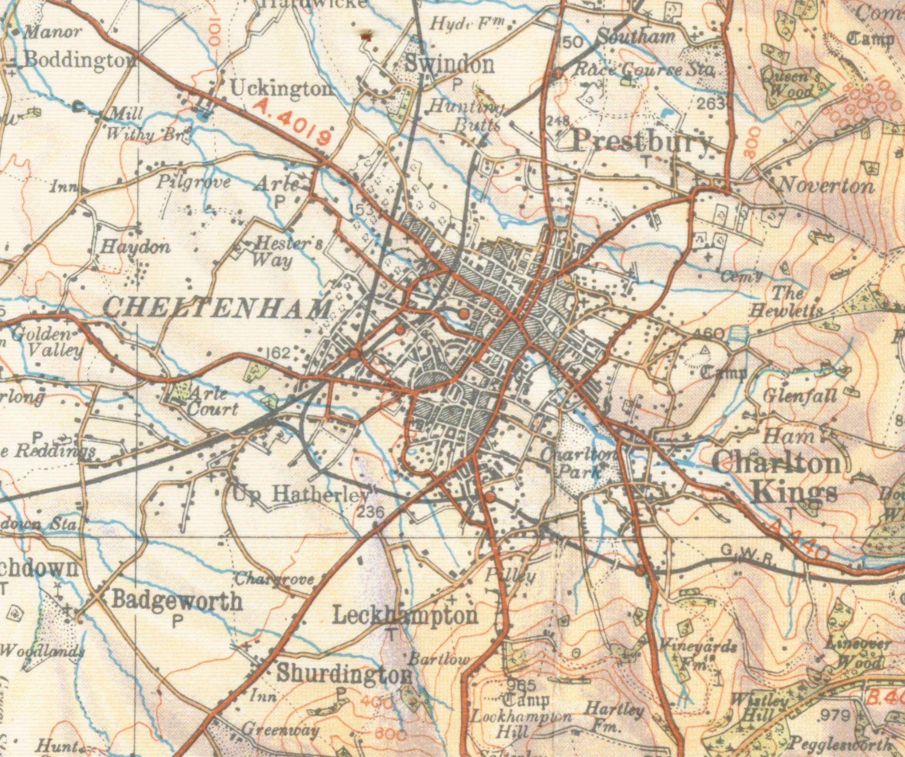 Map of Cheltenham from 1933